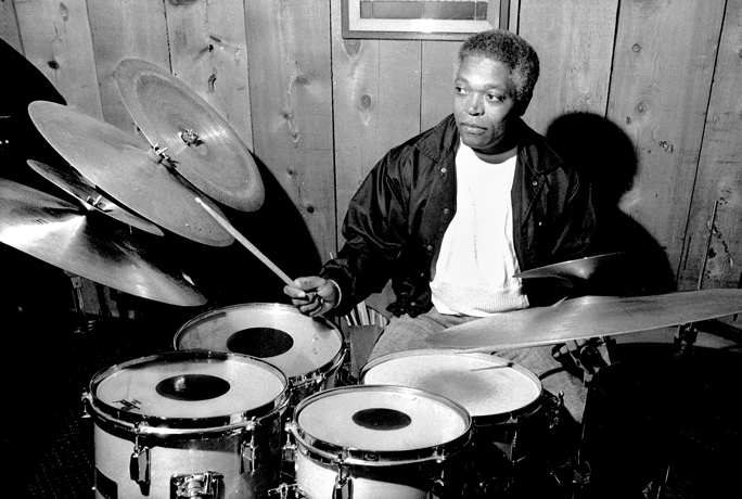 Billy Hart at Bach Dancing & Dynamite Society, Half Moon Bay CA. Photo by Brian McMillen /